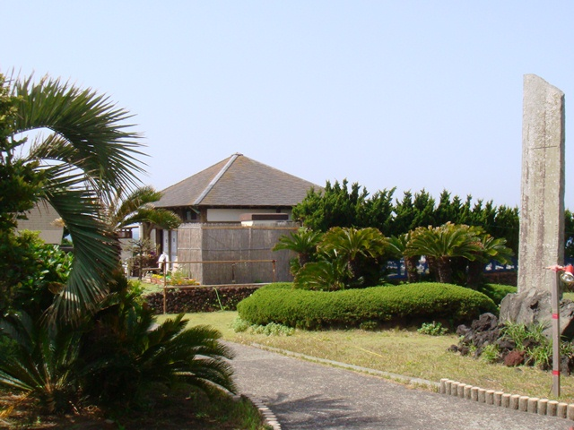 Hamano-yu Spa, Izu Oshima.